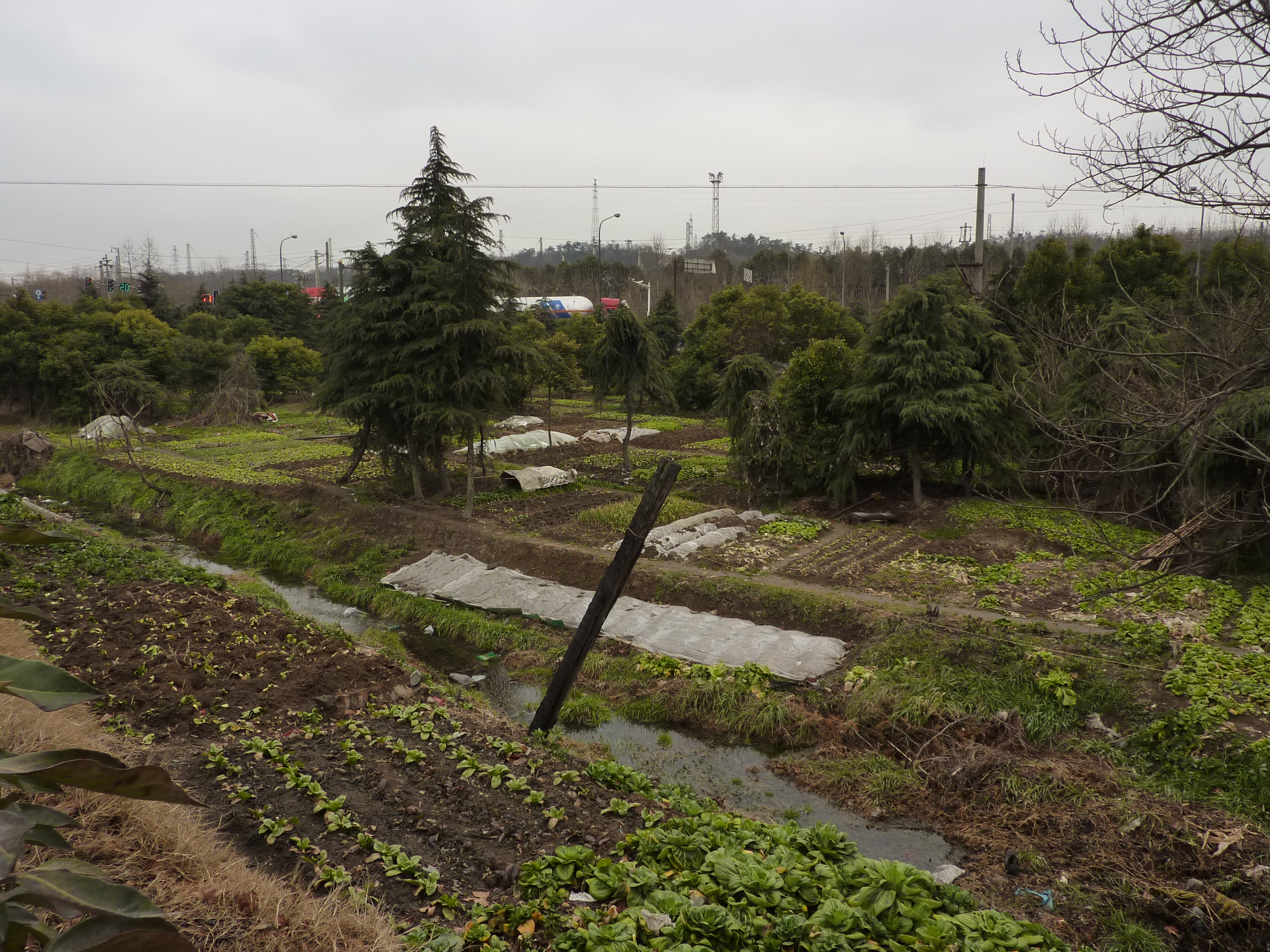 A roadside park, with some vegetables between the trees, near QIxia Ave in Ganjiaxiang section of Qixia District, Nanjing